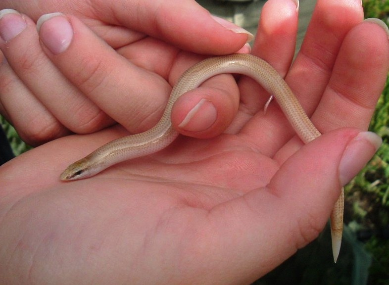 Scelotes montispectus. A recently discovered skink endemic to the city of Cape Town. Photo taken in Blaauwberg conservation area.